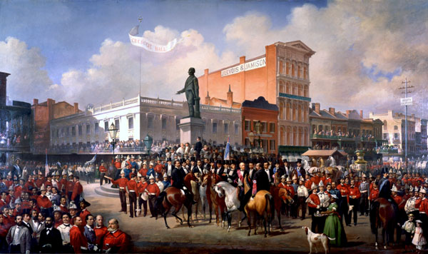 "Volunteer Firemen’s Parade, March 4th 1872". Painting Paul Poincy and Victor Pierson depicting volunteer firemen on Canal Street in New Orleans. Oil on canvas. The view is looking upriver from the corner of Canal & Royal Street, towards lower end of St. Charles with the statue of Henry Clay seen. "The New Orleans Republican" in February 1873 gave this description of details: "At the right, Emile Lamaire leans forward from his stallion, to converse with some of the down-town boys who surround him. There is Bill Swan, with his silver hat, Louis A. Wiltz, and Bob Brewster, president and foreman of No. 9 . . . Among the aides to the grand marshall, Joe Horner, the orator of the day, covers one flank, while Badger, the Metropolitan Chief of Police, wearing for the time being the blue scarf of No. 6, sits on his horse at the left of the group. About the center, Charley Howard has lifted his hat to salute some ladies beyond. Jim Wingfield stands looking up at Tyler’s clock, anxious for the procession to form and Judge Braughn sits in the saddle complacently indifferent to flying time."